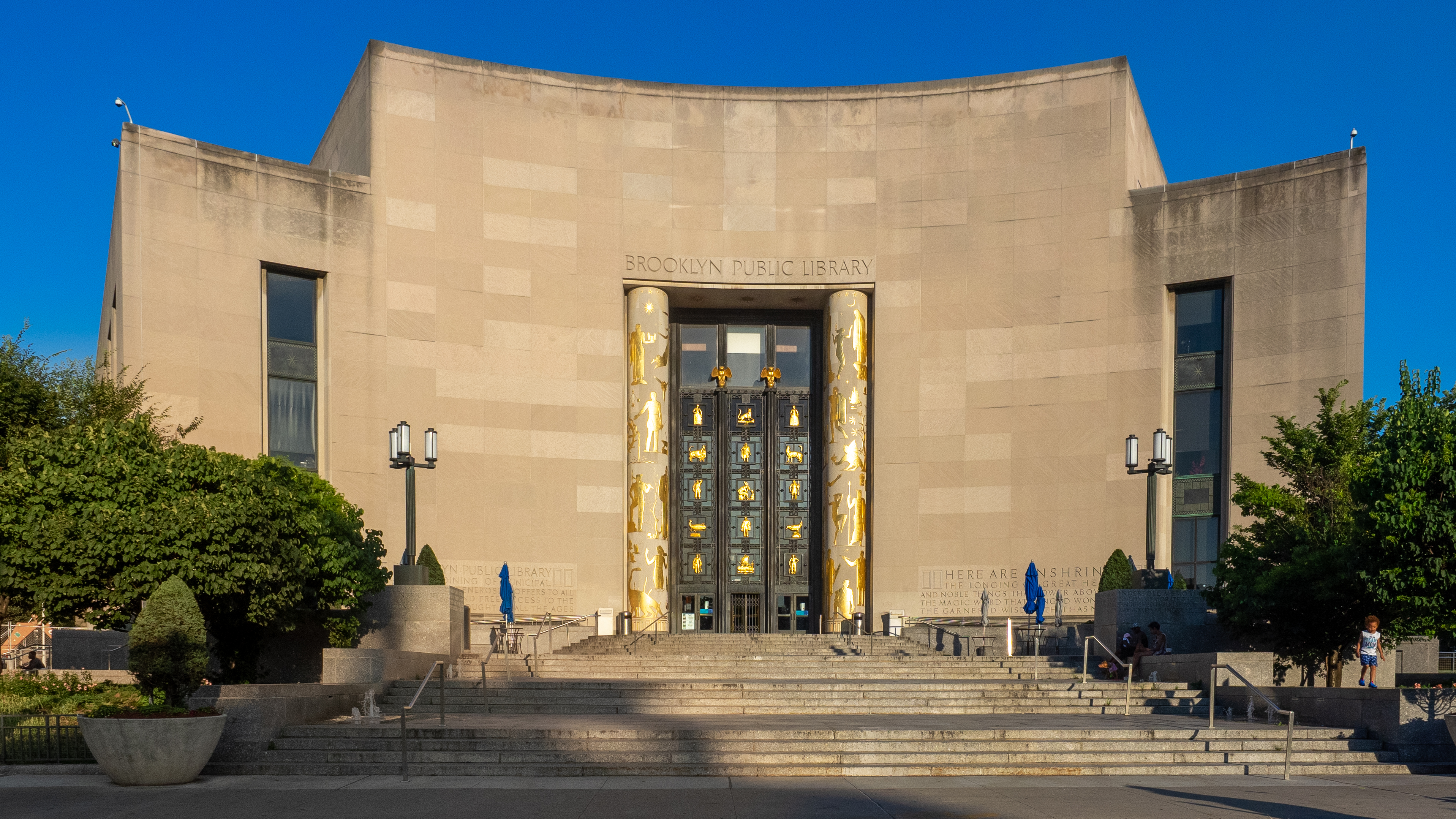 Prospect Park, Brooklyn, New York